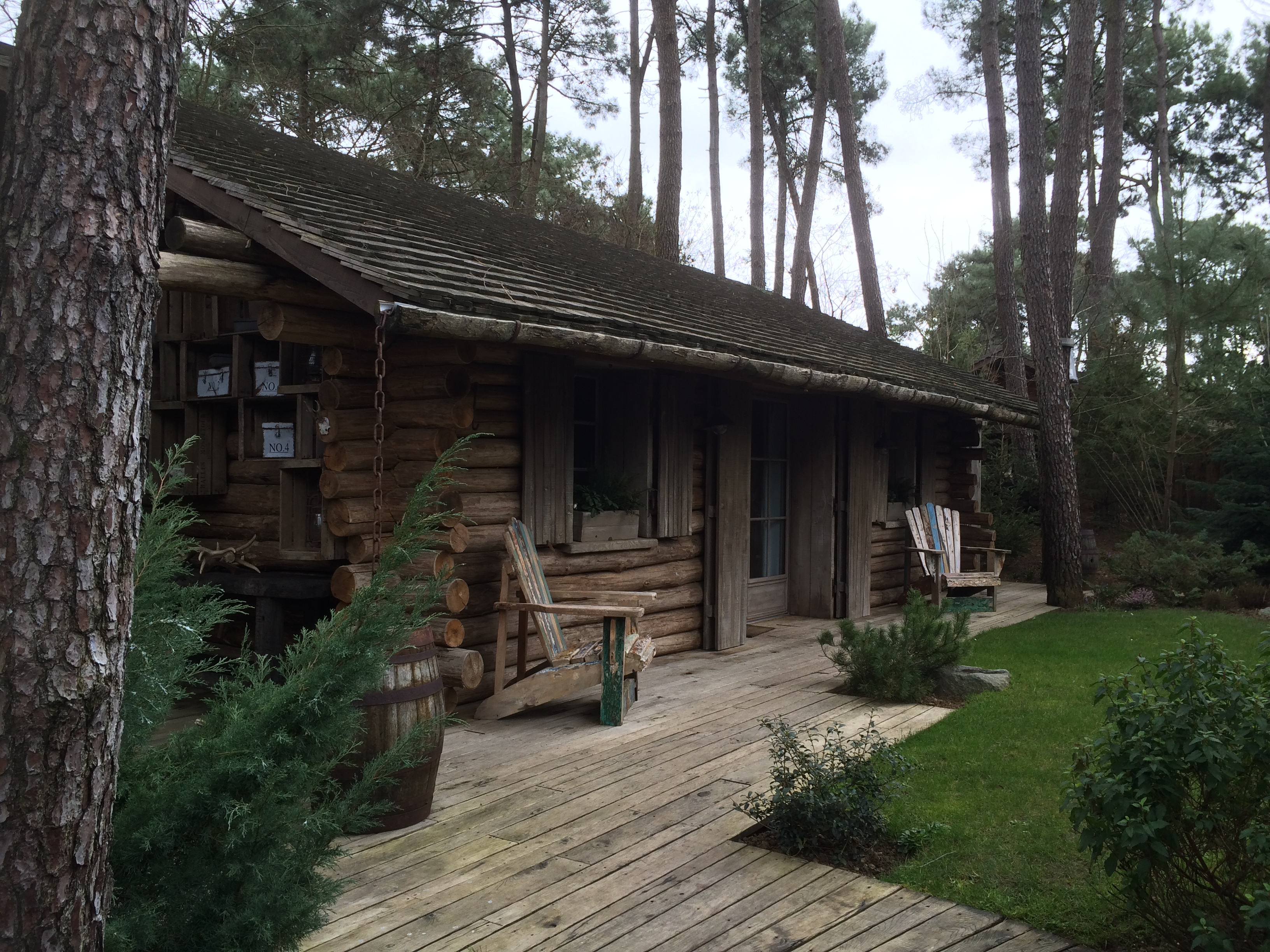 Guest lodge near the Arctic wolf place in the Zoo de la Fleche